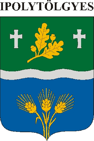 Coat of arms of Ipolytölgyes, Hungary